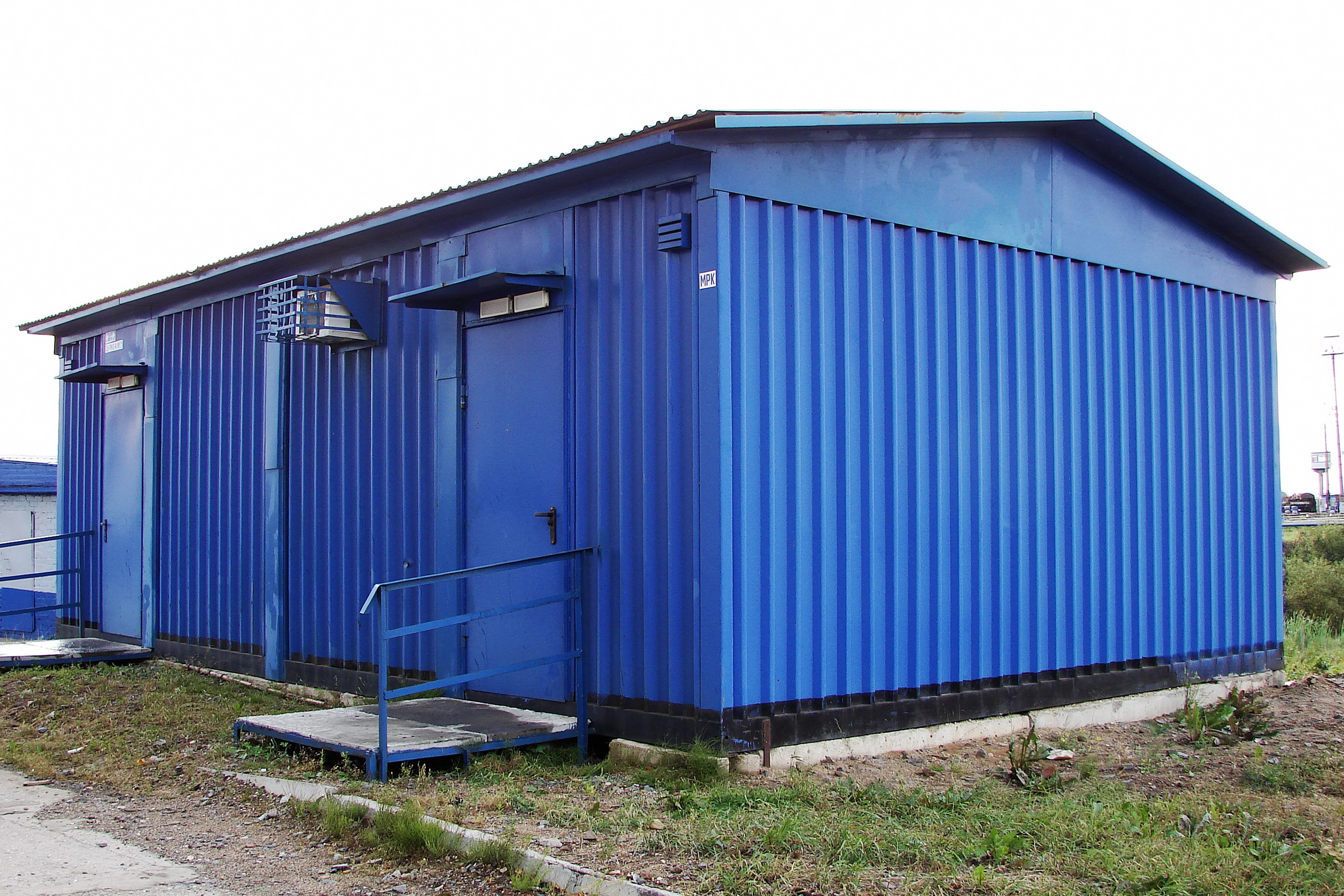 Russian Railway. Building (module) of the electrical centralization